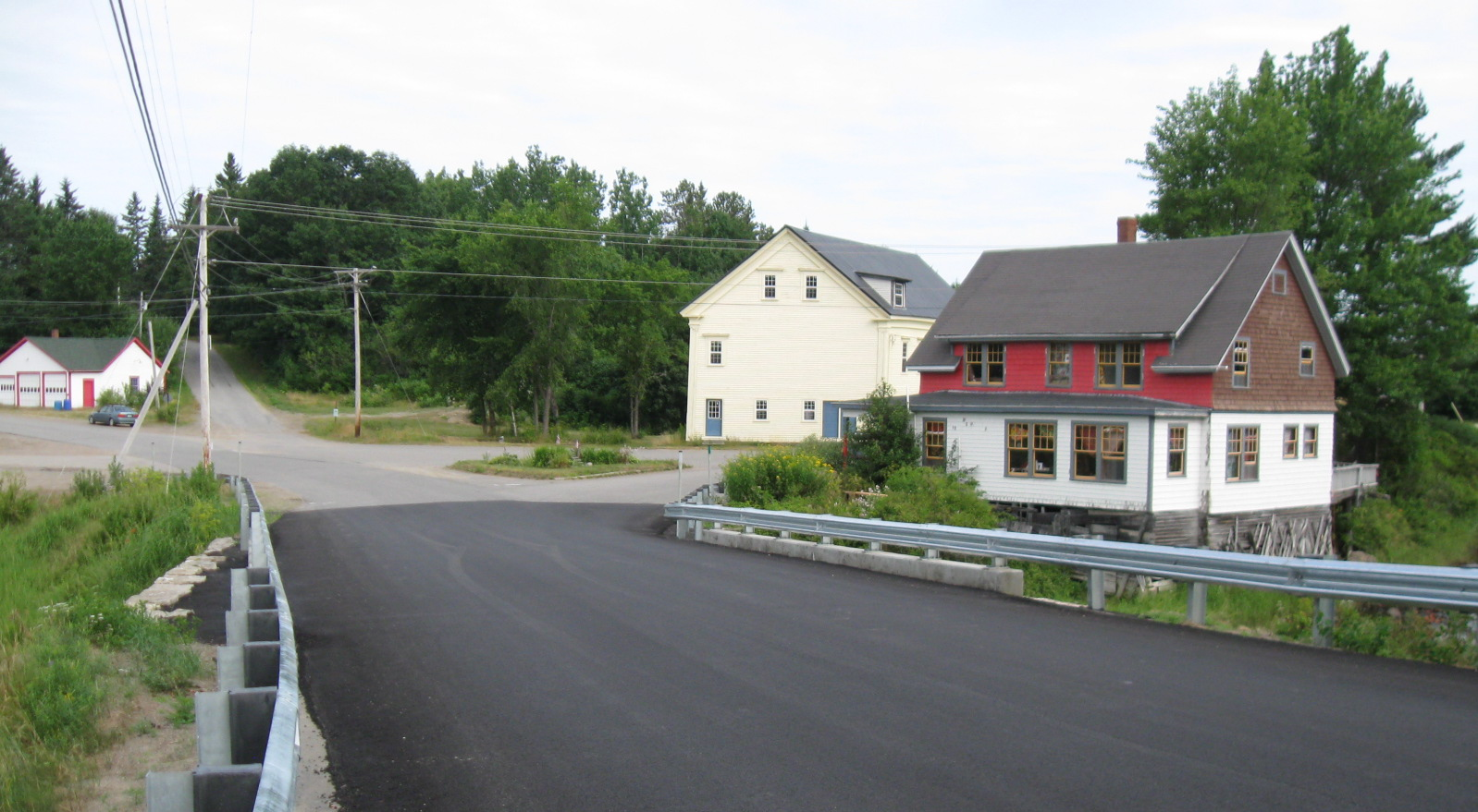 Union Square, center of Pembroke, July 2012